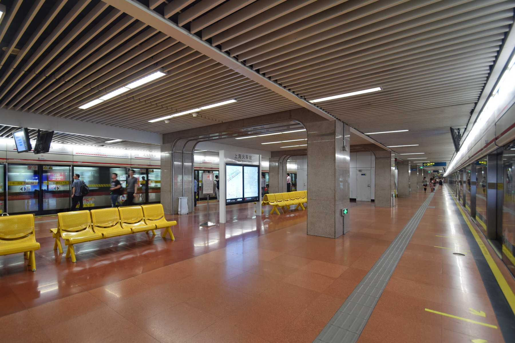 Line 1 Platform of Shanghai Railway Station Station, Shanghai Metro